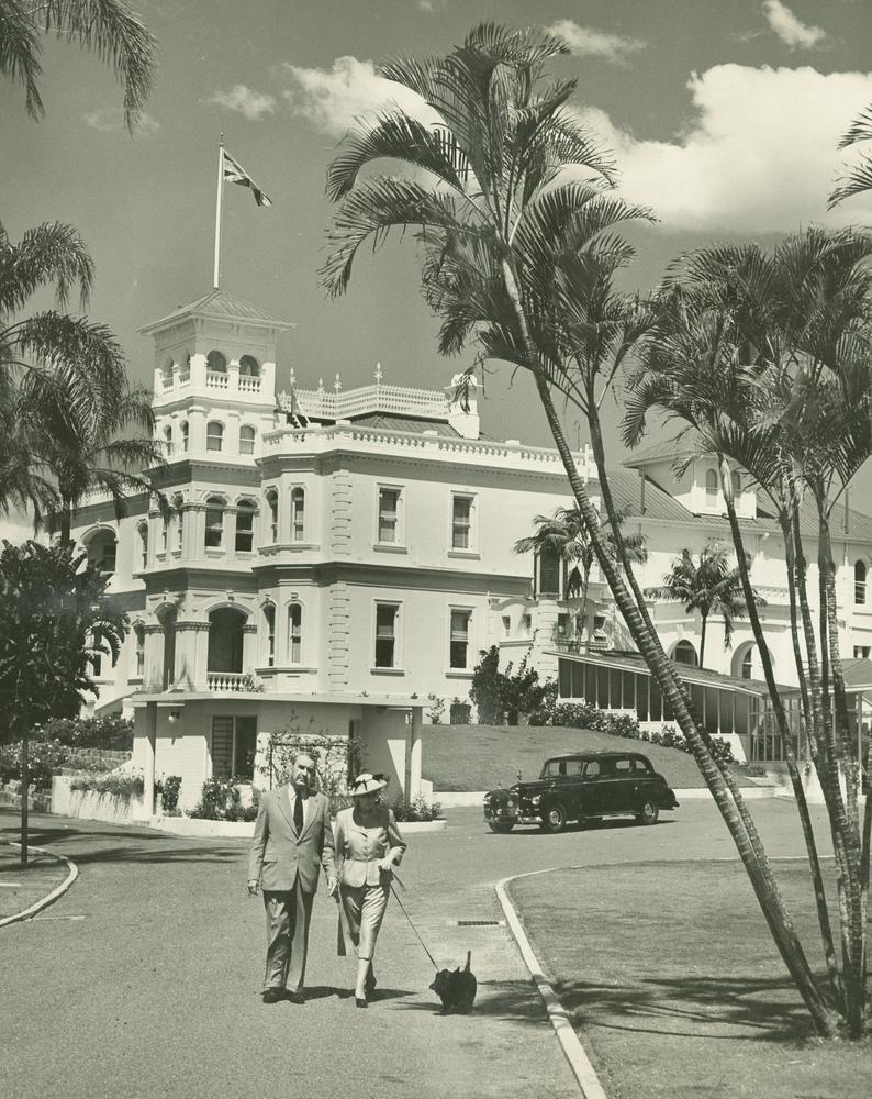 Sir John and Lady Lavarack walking along the drive of Fernberg, the official residence of the Governor of Queensland, Brisbane, 1947. With them is their scotty dog, Monty.